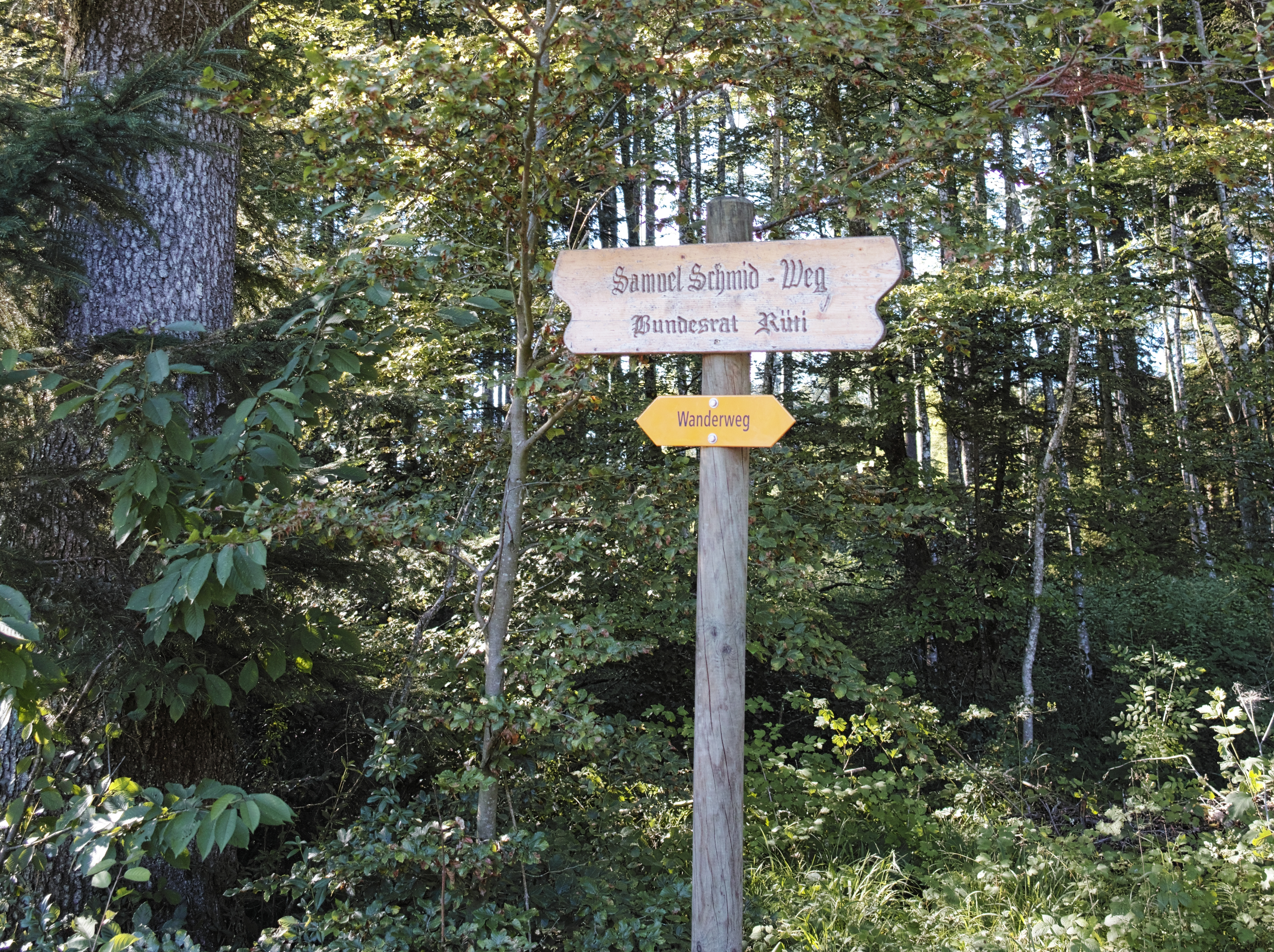 A small road in a forest near Rüti bei Büren, canton of Bern, Switzerland, is named after former Federal Councillor Samuel Schmid who was born in this municipality.